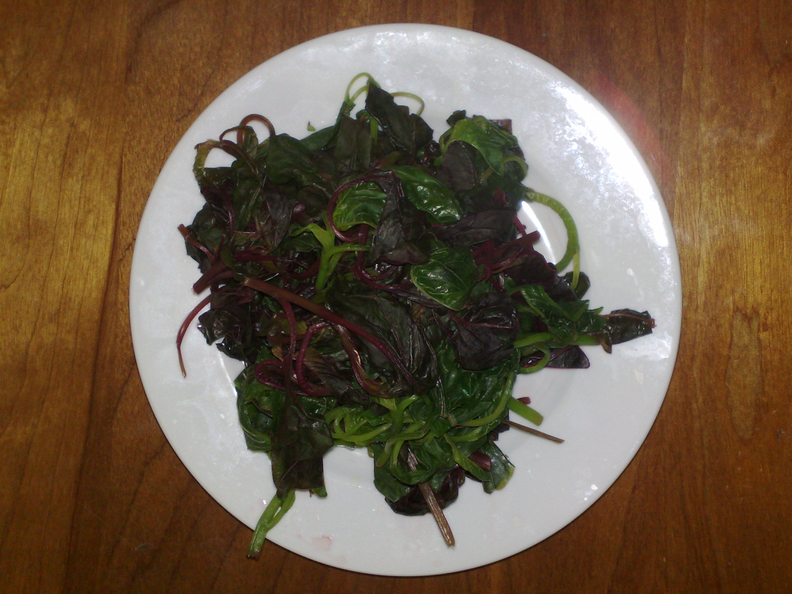 Boiled red amaranth